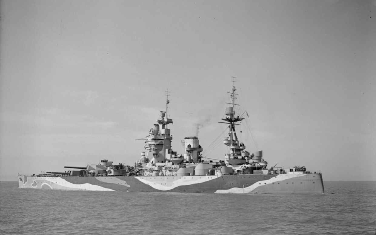 HMS RODNEY underway after refitting at Liverpool.